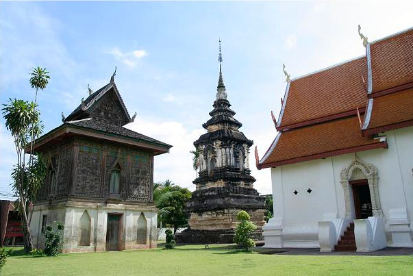 wat hua khuang